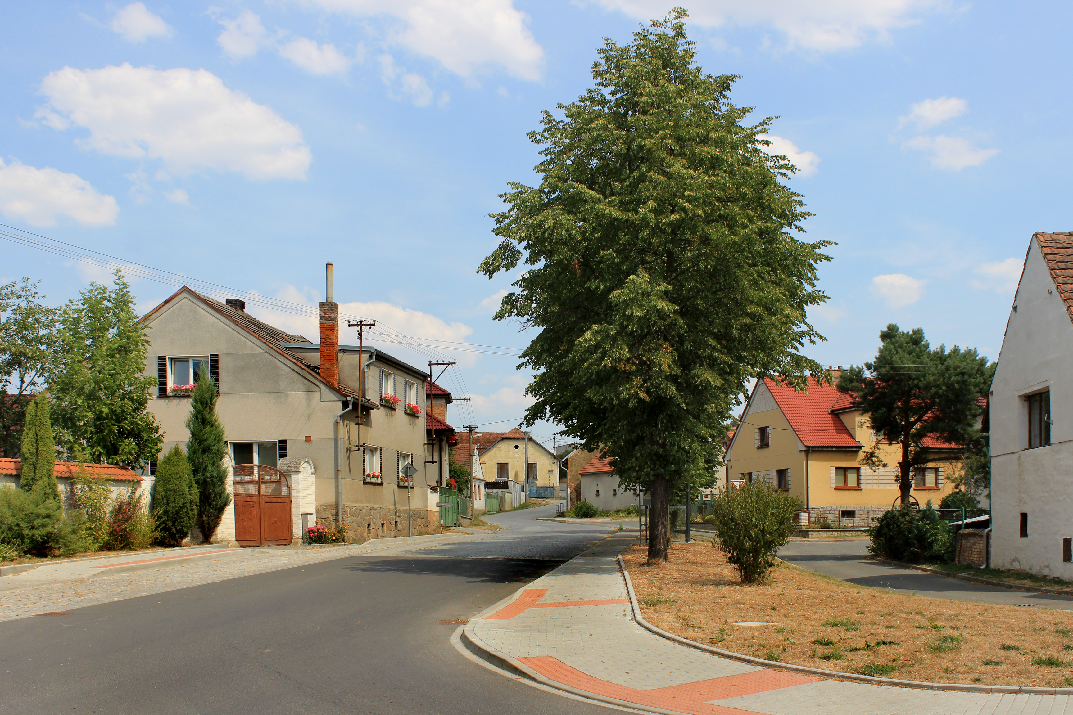 Common in Předenice, Czech Republic.